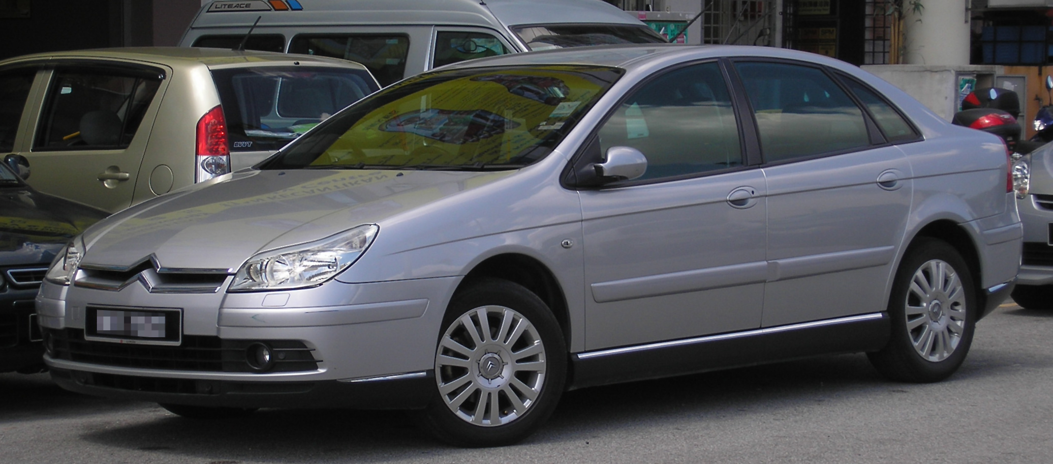 Front-side shot of a first generation, first facelift Citroën C5, in Serdang, Selangor, Malaysia.